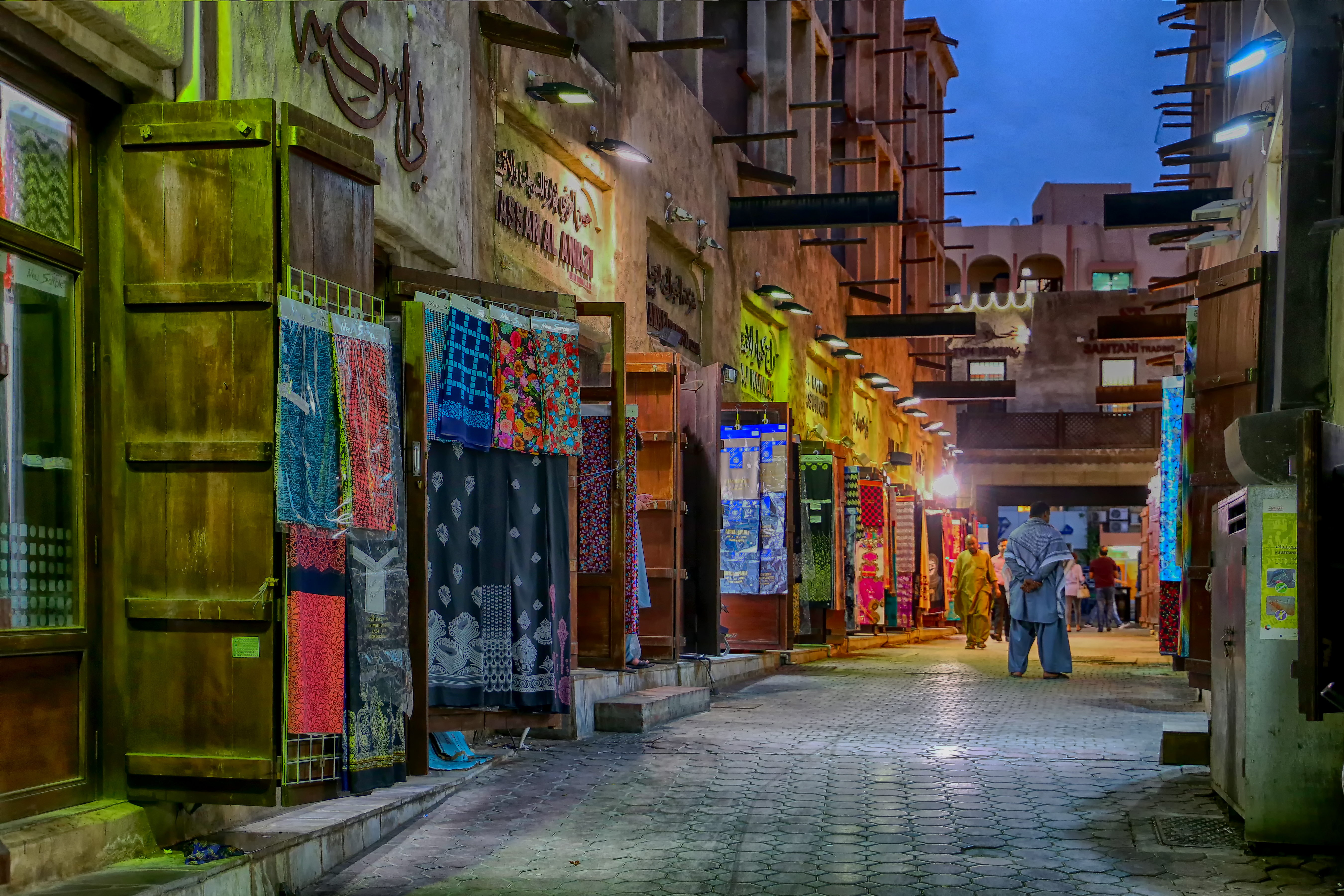 Textile Souk is located at the old trading centre of Bur Dubai, on the opposite side of Dubai Creek, and has a range of fabrics, silk and cotton fabrics.